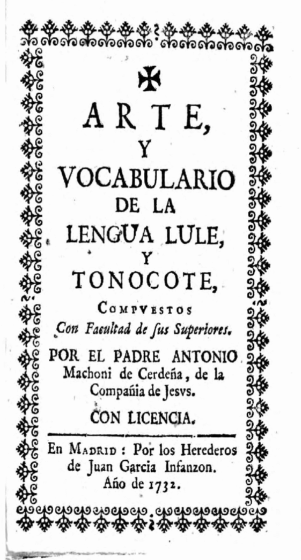 Arte y vocabulario de la lengua jule y toconote, Madrid, G. Infançón, 1732